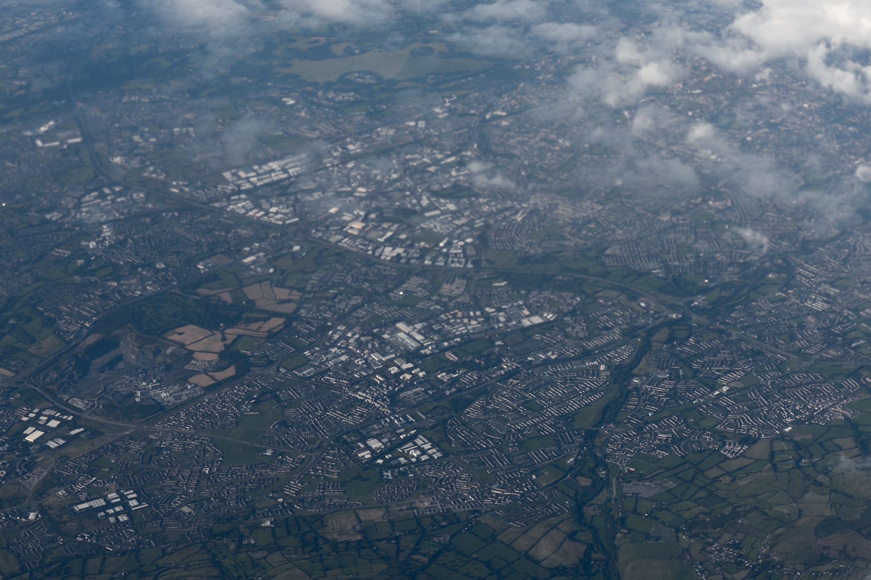 Aerial view of Tallaght during a flight between CDG and YUL.